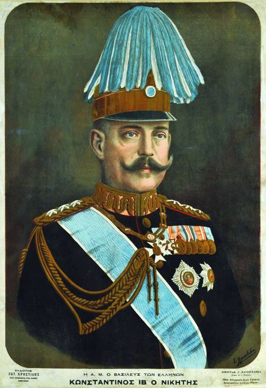 Lithograph of King Constantine I of Greece published after the Balkan Wars. Here he is called "Constantine XII the Victorious", numbering him in direct succession to Constantine XI Palaiologos, the last Byzantine Emperor, per the Megali Idea.